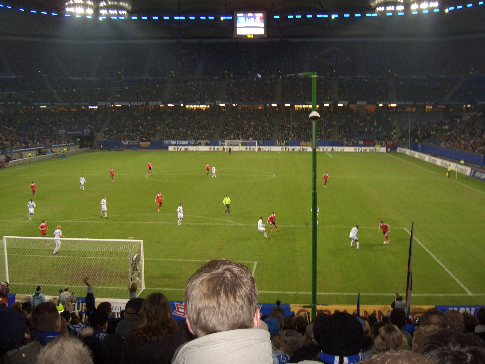 HSV - Stade Rennais, UEFA Cup 07/08, Group D